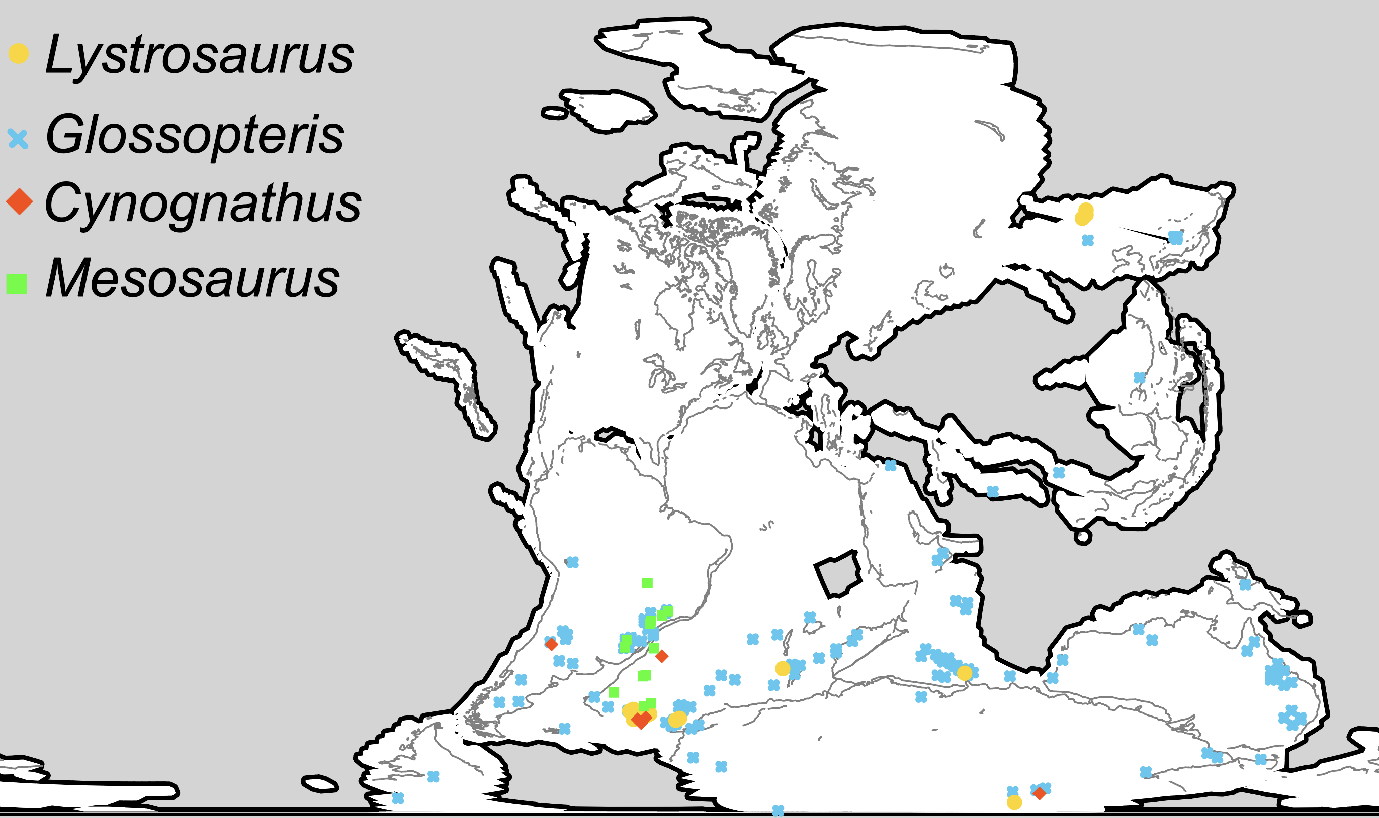 Distribution of four Permian and Triassic fossil groups used as biogeographic evidence for continental drift, and land bridging, and forms the basis of the popular schematic that is often attributed to Wegener.